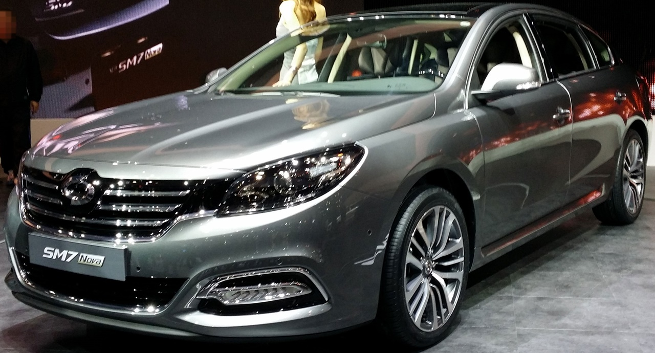 Renault Samsung New SM7 Nova